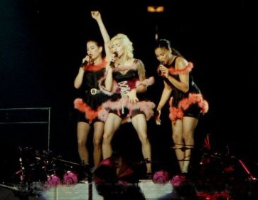 Photo taken during one of the concerts in 1990